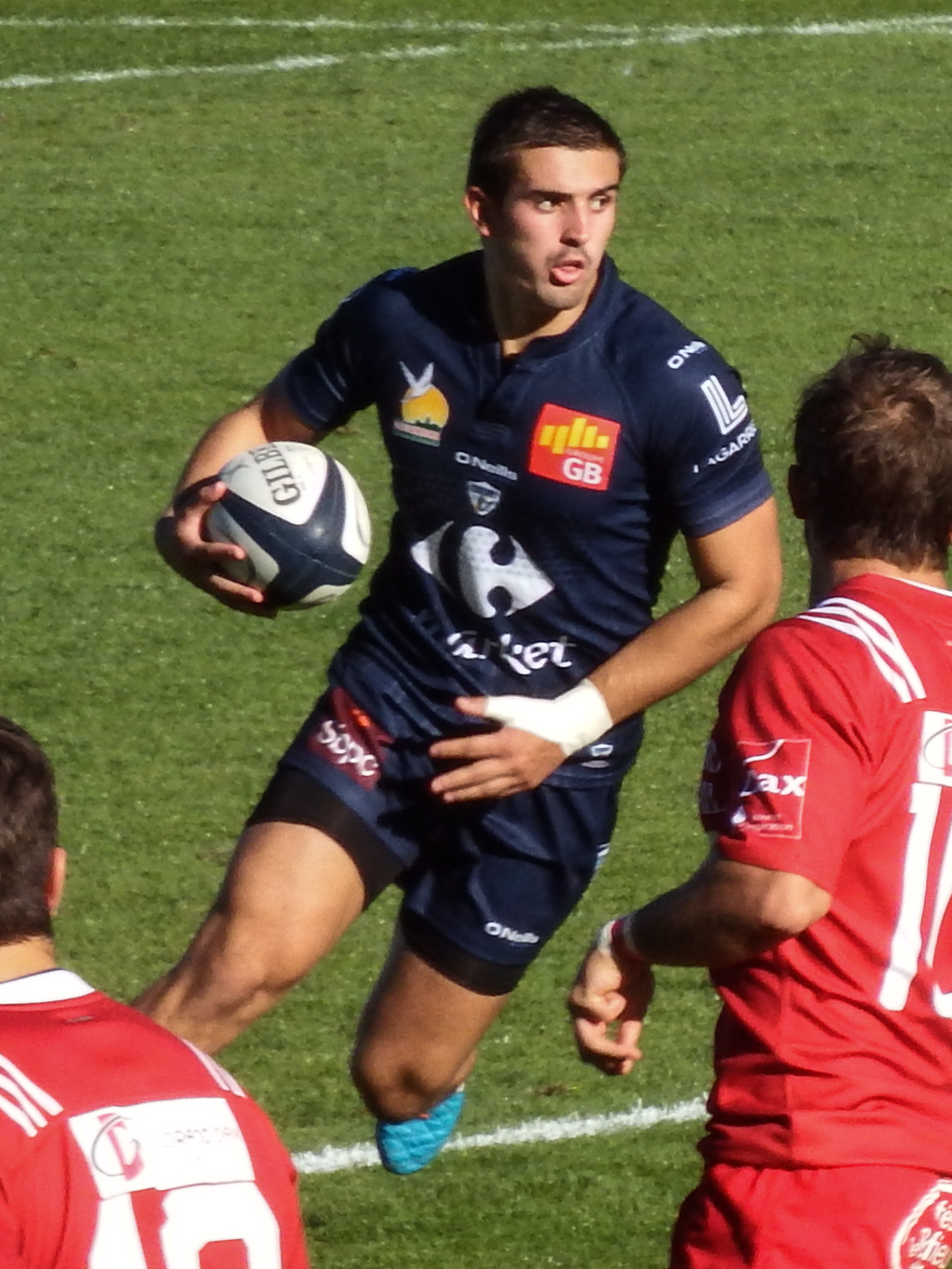 Pro D2 2016-2017 — 30 October 2016, Stade Michel-Bendichou. Match between: Colomiers rugby — US Dax